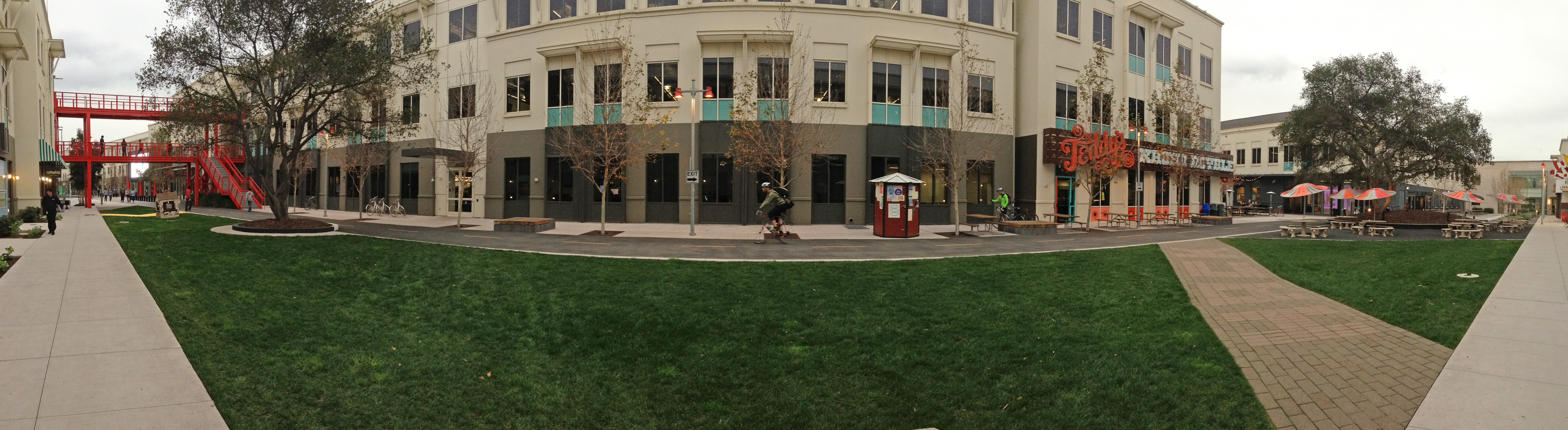 inside the Facebook campus